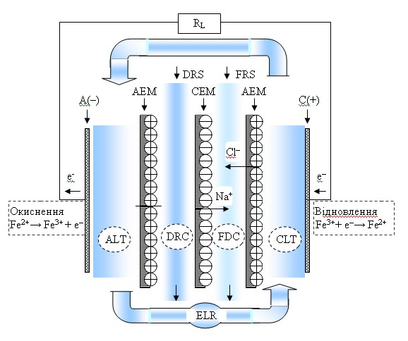 Molecular power 30. Basic reverse electrodialysis cell for the production of electric current from a salinity gradient